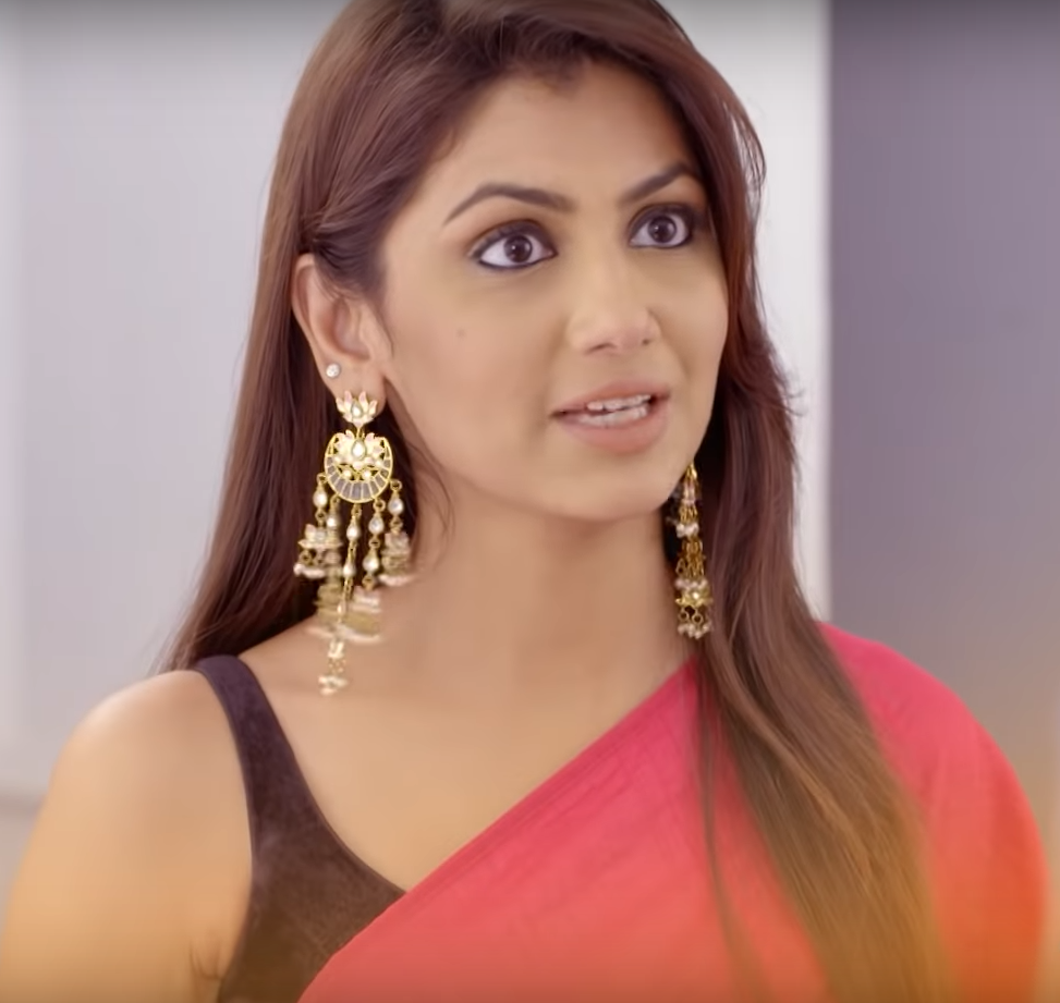 Sriti Jha Snapshot